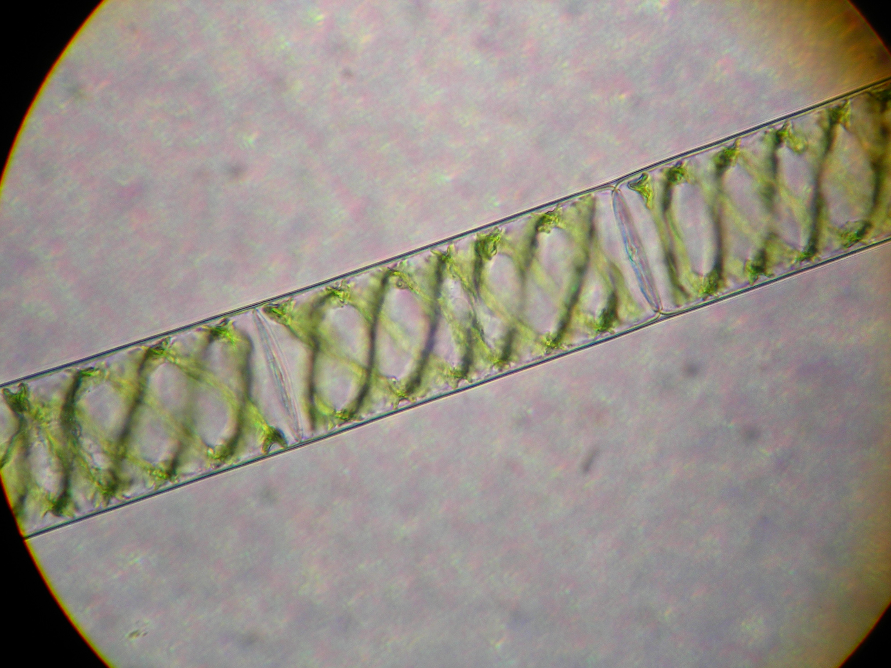 "Spirogyra" under 40x magnification, digital photo taken by Wikipedian Spicywalnut and released to the public domain.